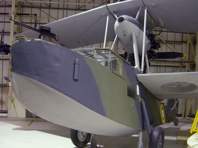 Supermarine Seagull V (Supermarine Walrus), A2-4/VH-ALB, on display in RAF markings at the RAF Museum in London.